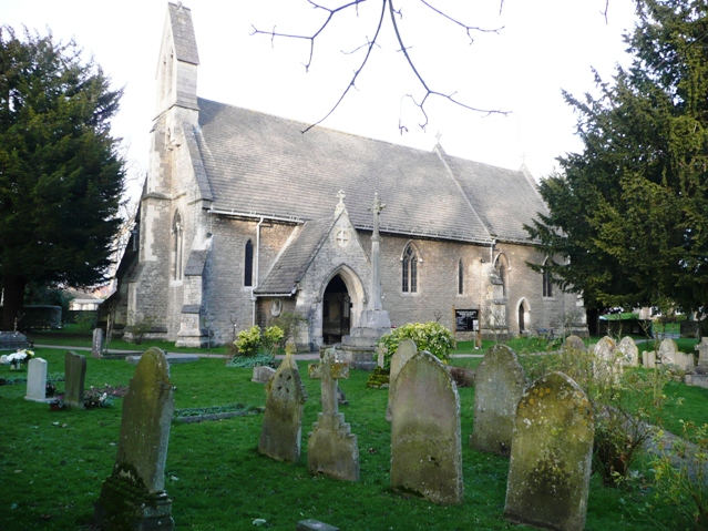 Holy Trinity Church, Headington Quarry. CS Lewis is buried in the churchyard.